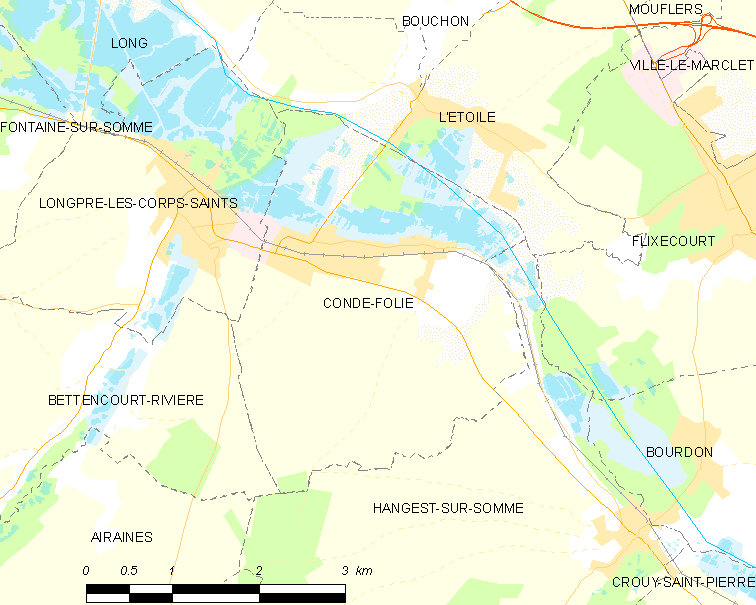 Map of French municipality Condé-Folie